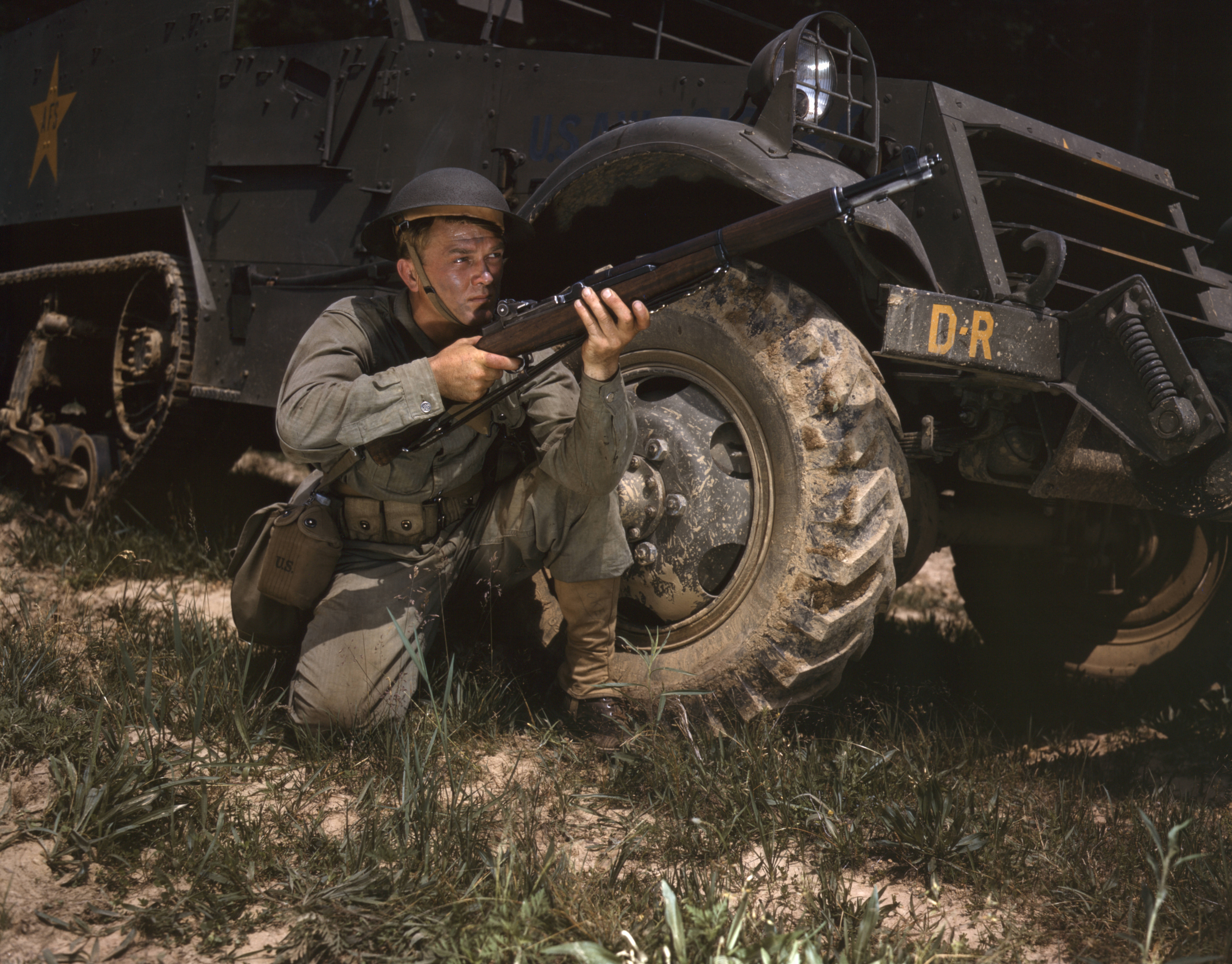 Infantryman with halftrack, a young soldier of the armed forces, holds and sights his Garand rifle like an old timer, Fort Knox, Ky He likes the piece for its fine firing qualities and its rugged, dependable mechanism.